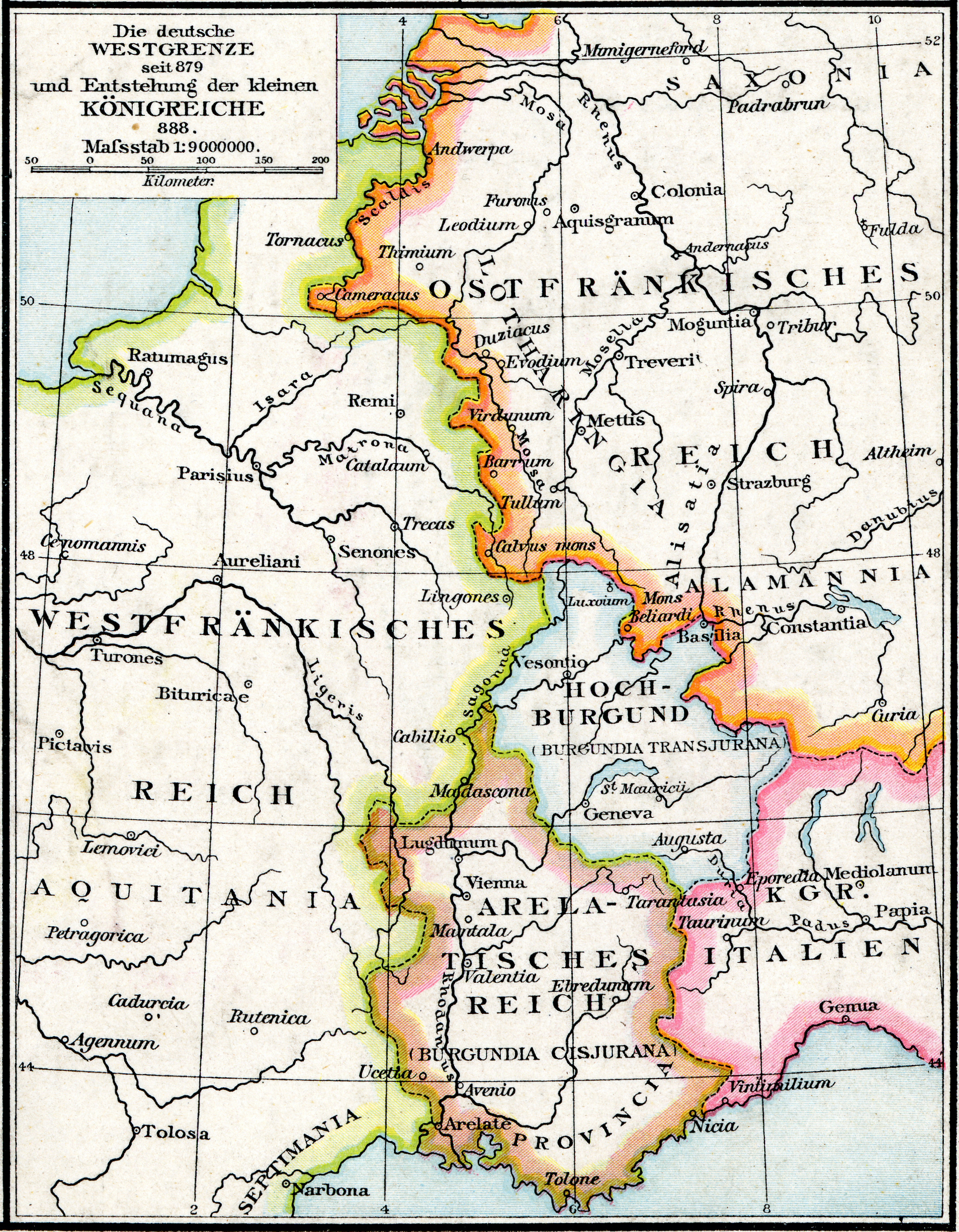 Shows the western borders of Germany in 888.